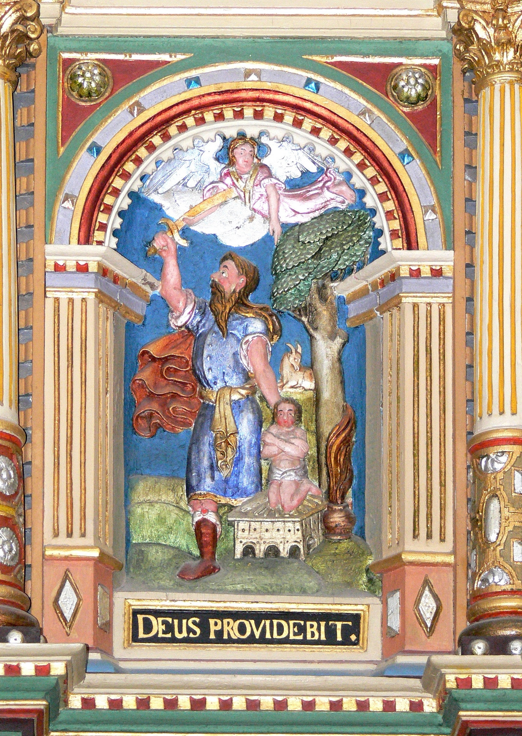 Ribe Cathedral. Pulpit ( 1597 ): Sacrfice of Isaac by Abraham with the inscription "Dominus providebit" ( The Lord takes care in advance )